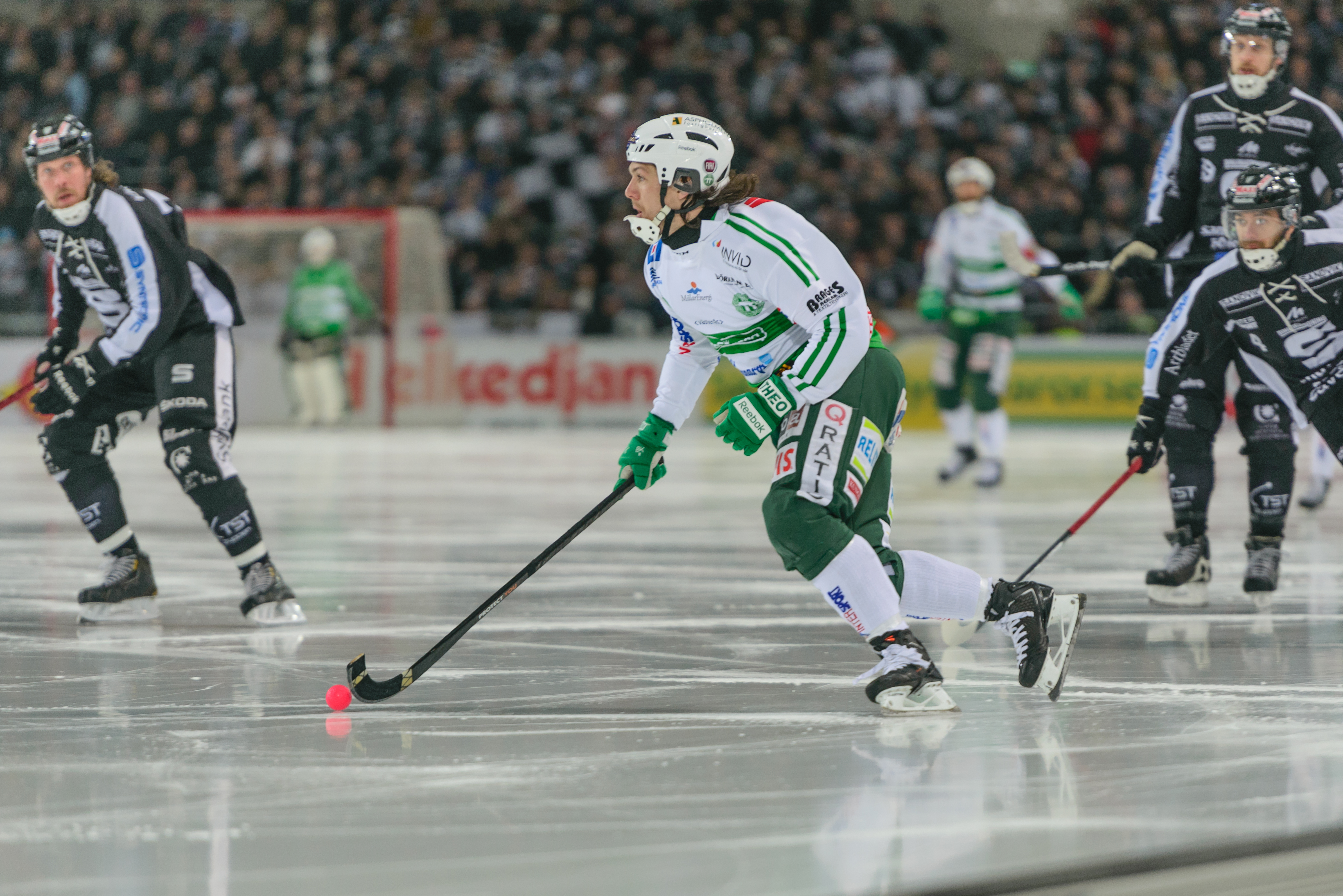 Swedish men's bandy championship final game of 2015, Sandvikens AIK (black)-Västerås SK (green/white) 4-6.